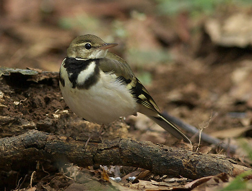 taken at Chushan, Nantou County.